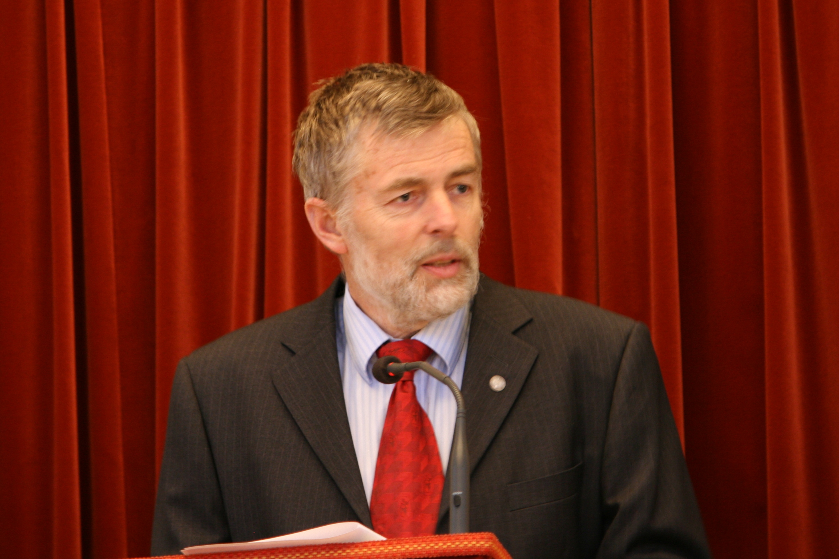 Finn Wisløff, dean at the Faculty of Medicine at the University of Oslo.